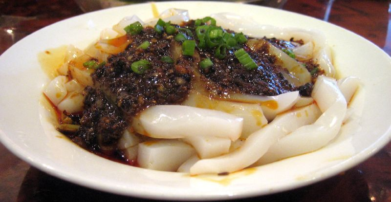 A plate of cold Northern Sichuan-style liangfen (Chinese bean jelly), before stirring. This dish is served as an appetizer. In Chinese, this dish is called 川北涼粉 (Northern Sichuan Liangfen). Photo taken at the Hong Kong Palace Chinese restaurant in Falls Church, Virginia, United States, with a Canon Digital IXUS 50 digital camera.